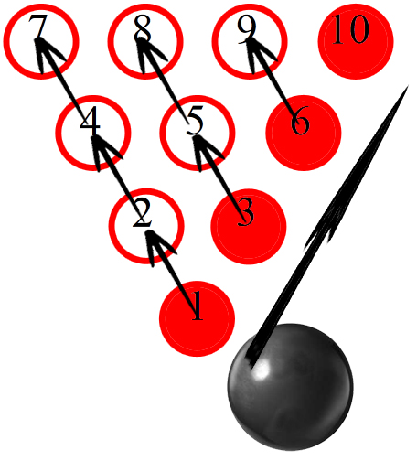 This is a diagram to illustrate a 10-pin layout in 10-pin bowling, and how a spinner will knock the pins down.